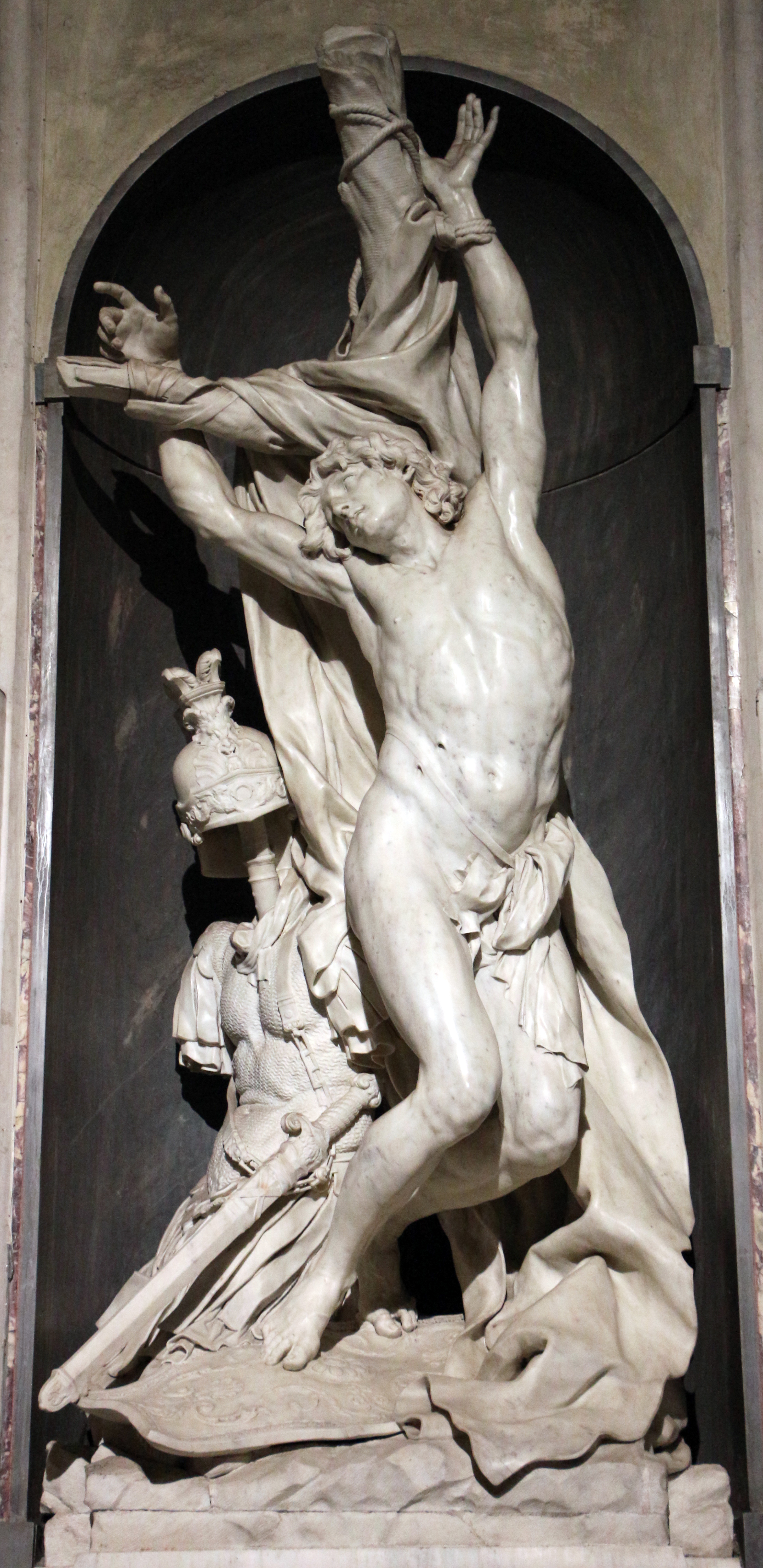 Pierre Puget, San Sebastiano, Santa Maria Assunta di Carignano